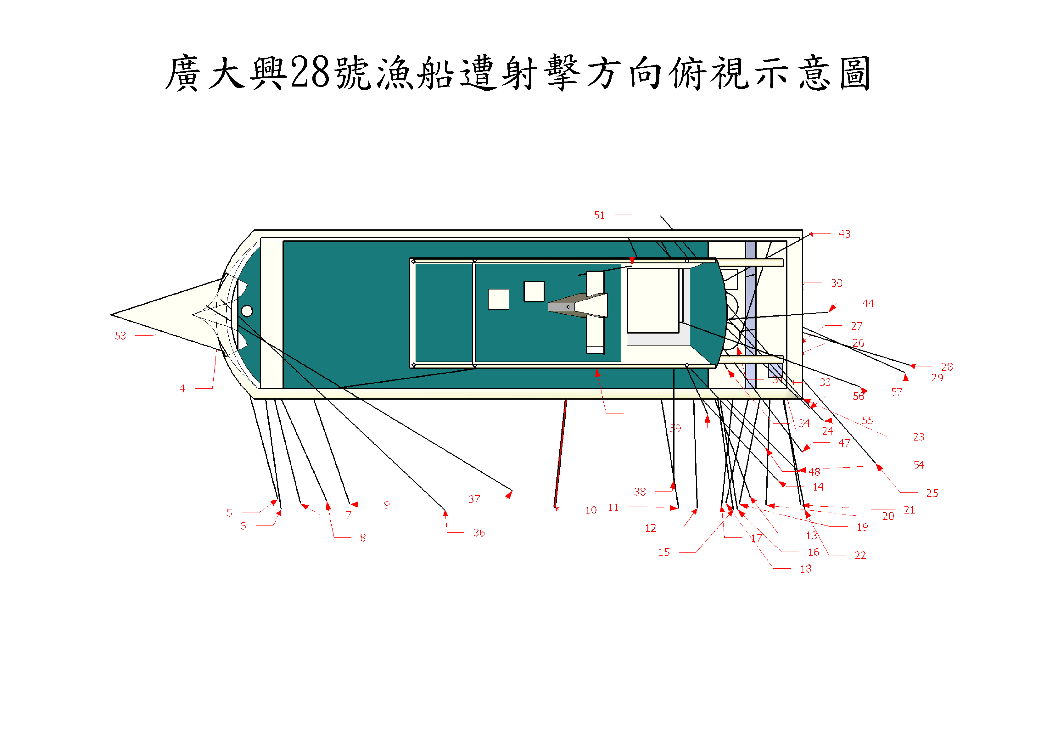 Bullet Trajectory of Guangdaxing No.28 (Top view)